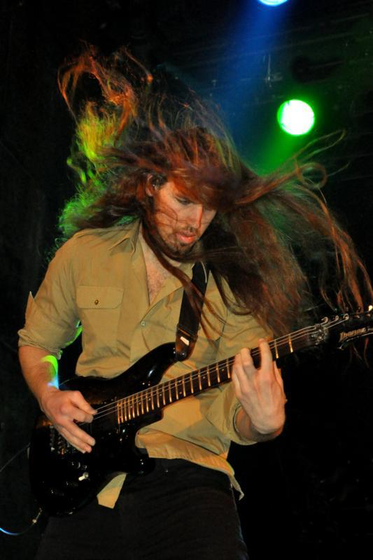 Live with Andromeda in the Netherlands.